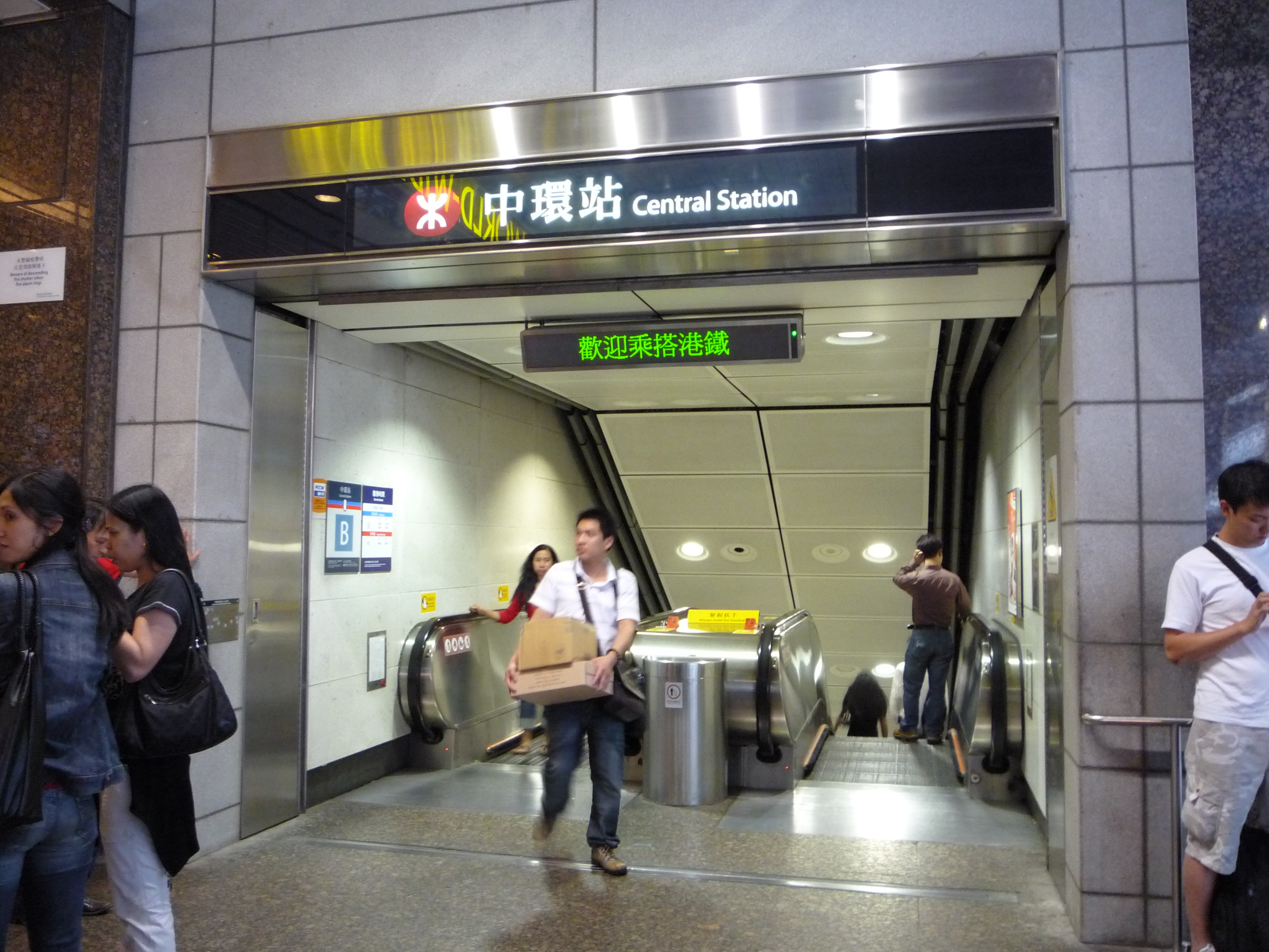 MTR Central Station Exit B